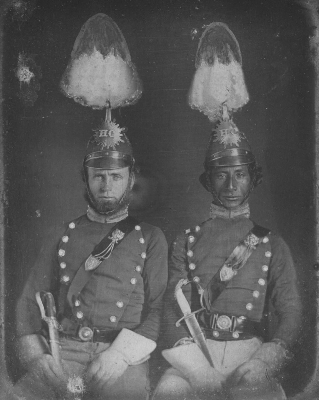 Major Henry Augustus Neilson and Lieutenant Paul F. Marin, members of the First Hawaiian Cavalry, half plate daguerreotype, 1855. Queens' Hospital Historical Room Collection, Honolulu. Henry Augustus Neilson (1824-1862) was King Kamehameha IV's personal secretary, who he had shot out of suspicions that he was having an affair with his wife. Paul F. Marin (1825–1869) was the son of Don Francisco de Paula Marín and brother of Frank Marin.